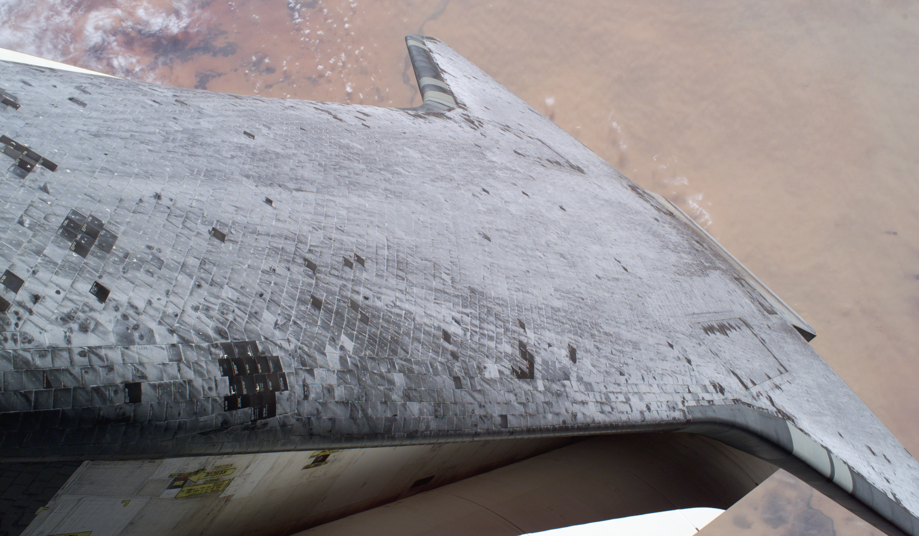 Space Shuttle Discovery’s underside thermal protection tiles are featured in this image photographed by astronaut Stephen K. Robinson, STS-114 mission specialist, during the mission’s third session of extravehicular activities (EVA).